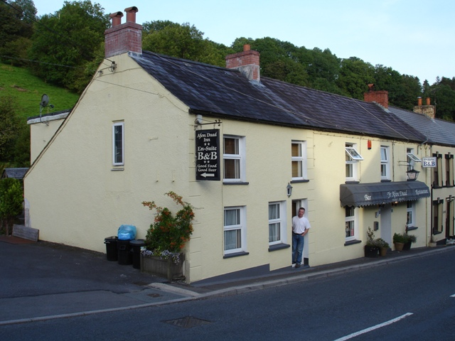 Afon Duad Inn Pub, restaurant, B&B, holiday cottage rolled into one.